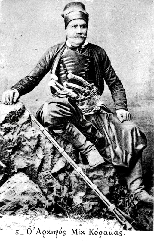 A Cretan revolutionary, who fought in every Cretan revolution happened through the span of his life against the Ottomans, and he lead the last one in 1878.